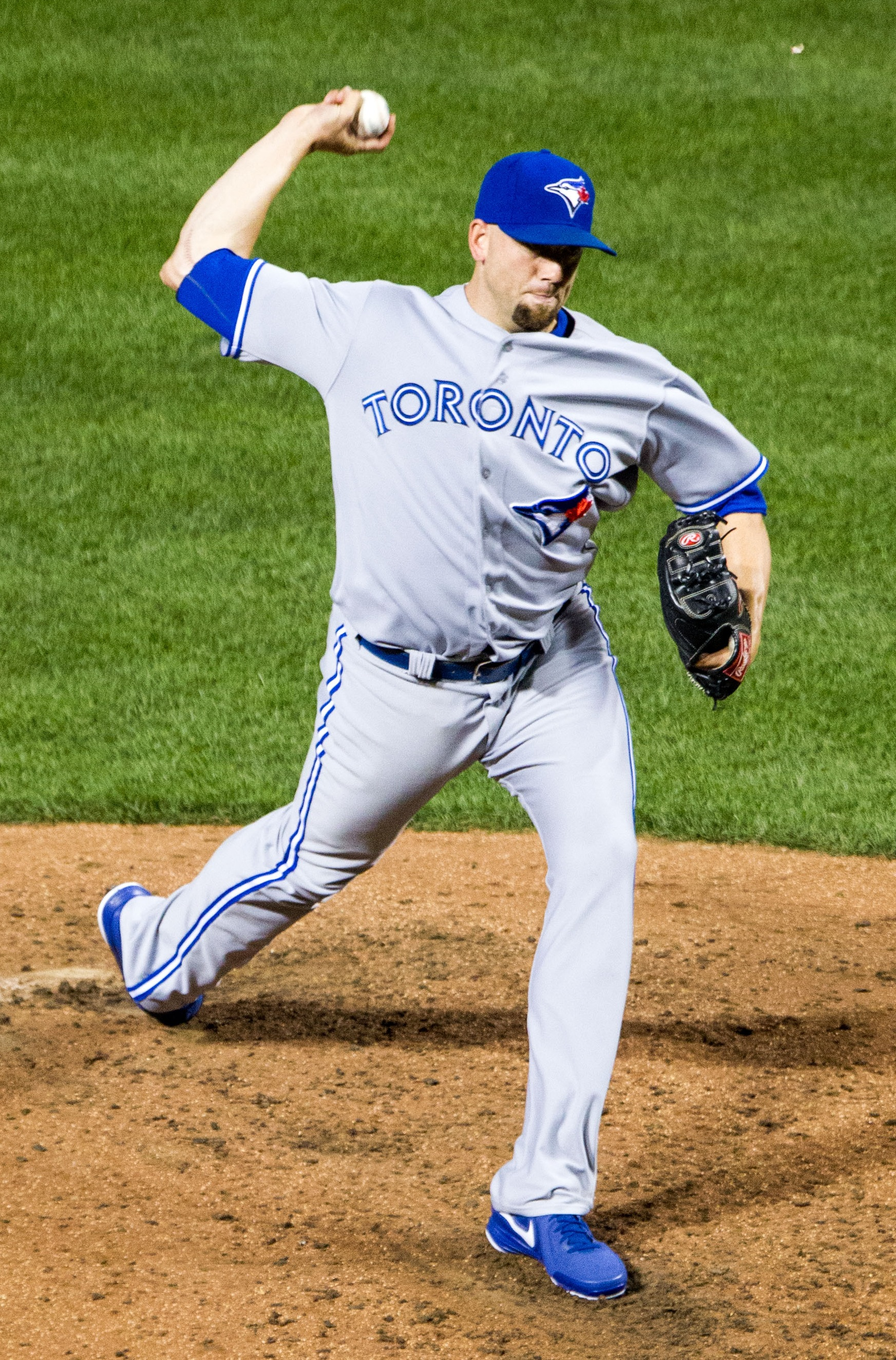 Blue Jays pitcher Steve Delabar - Toronto Blue Jays at Baltimore Orioles August 24, 2012